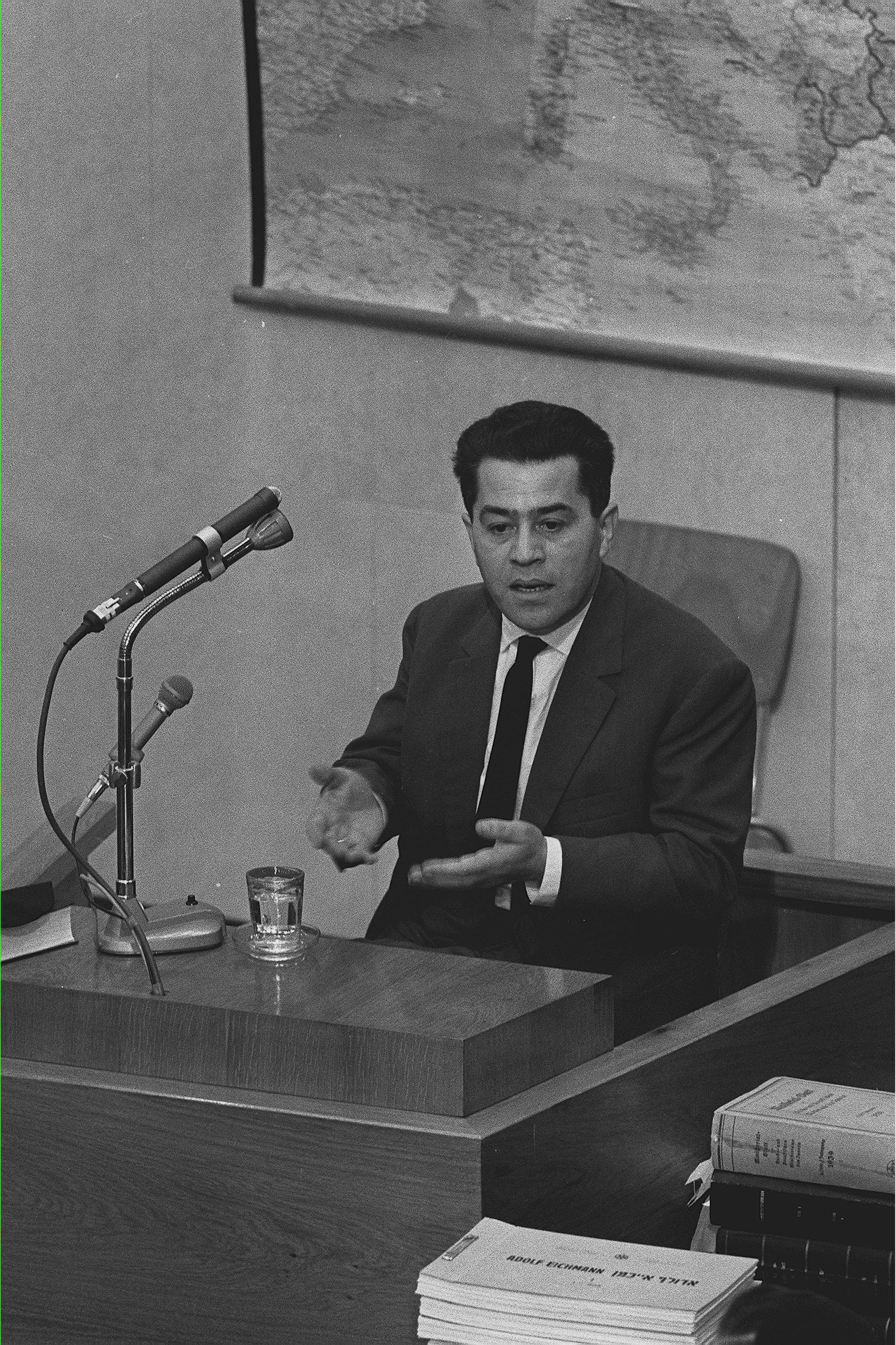 Dr. Moshe Beisky testifying at Adolf Eichmann's trial, Jerusalem 1961